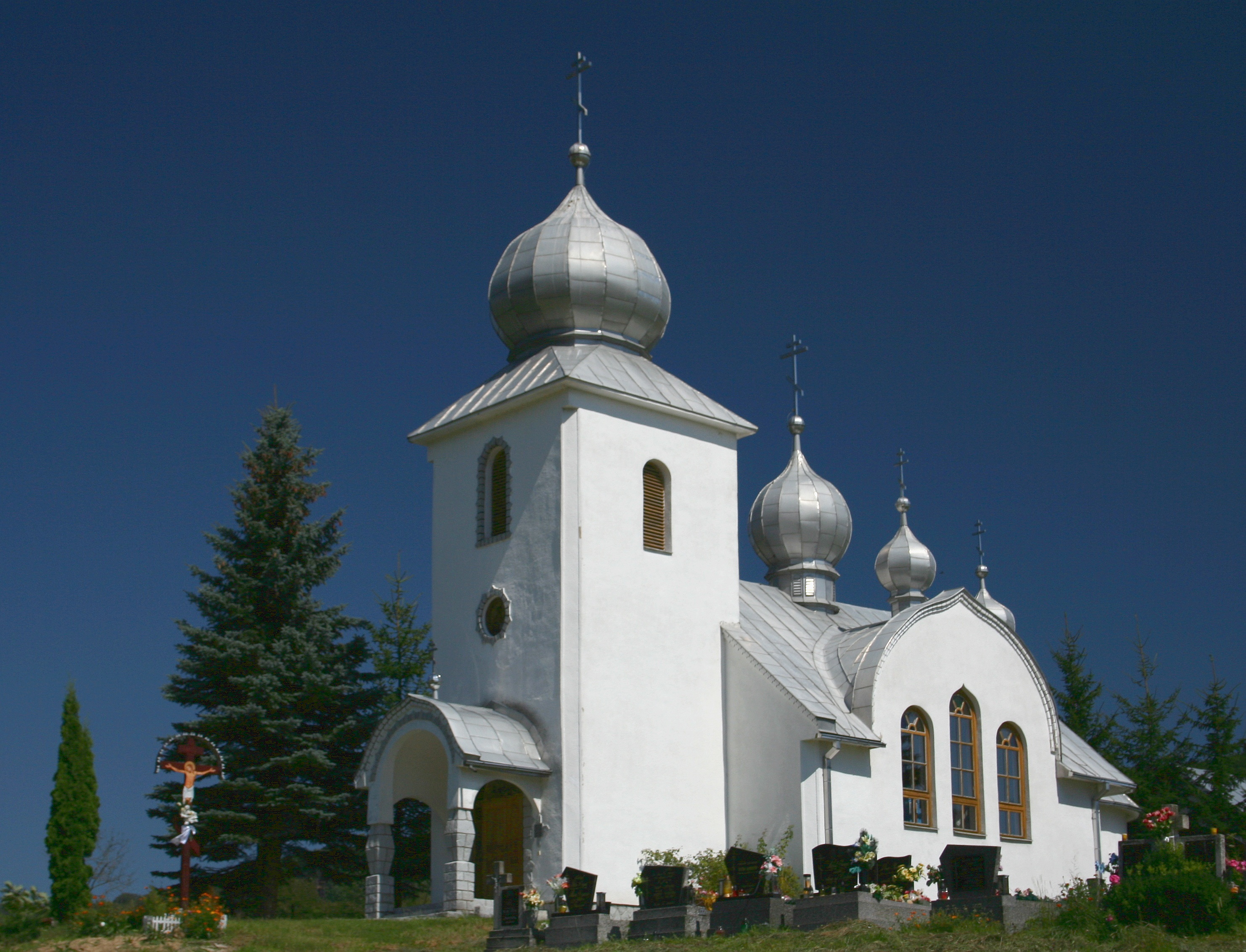 cerkiew in Rokytovce, village in Slovakia